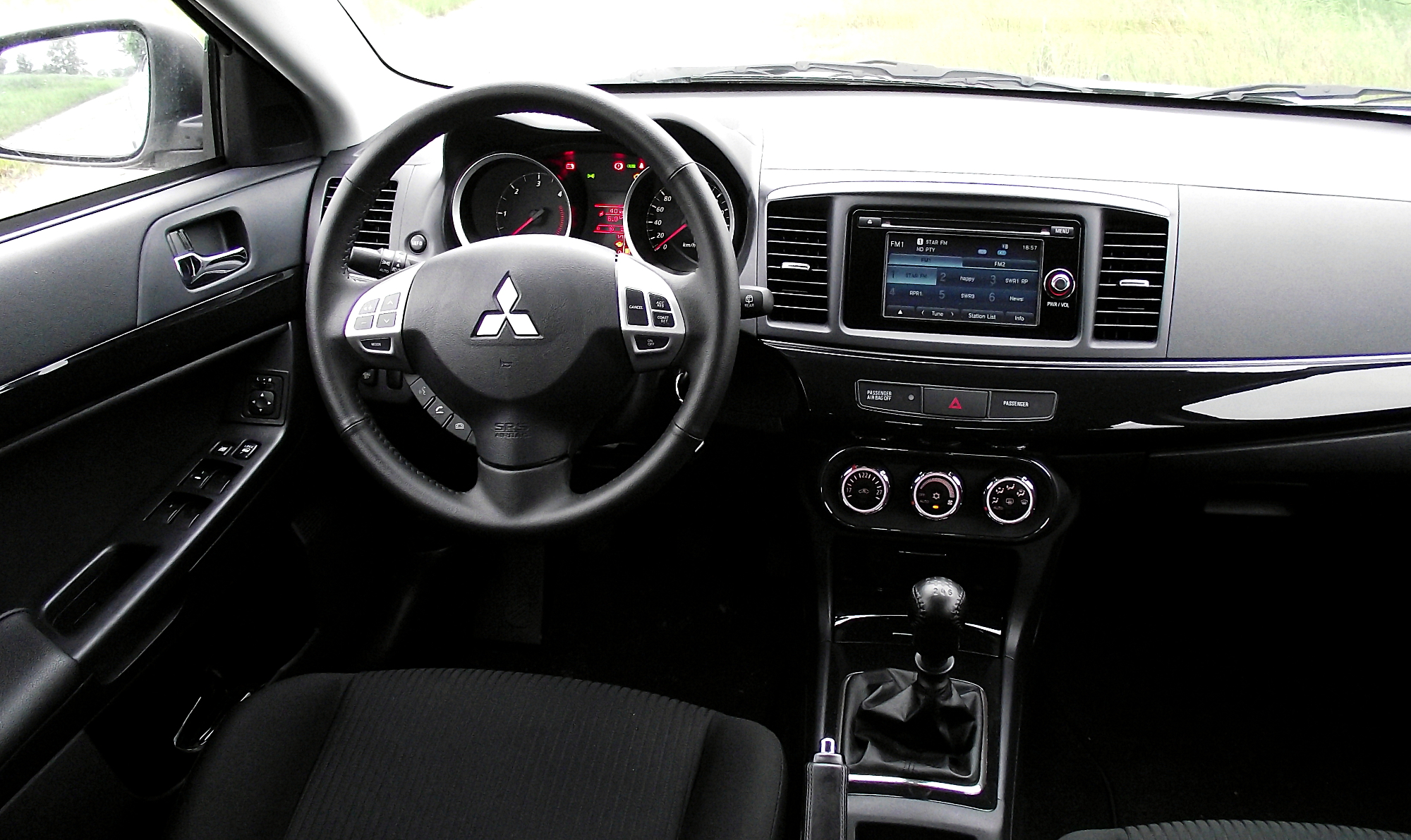 Mitsubishi Lancer Sportback Cockpit Interior model year 2013